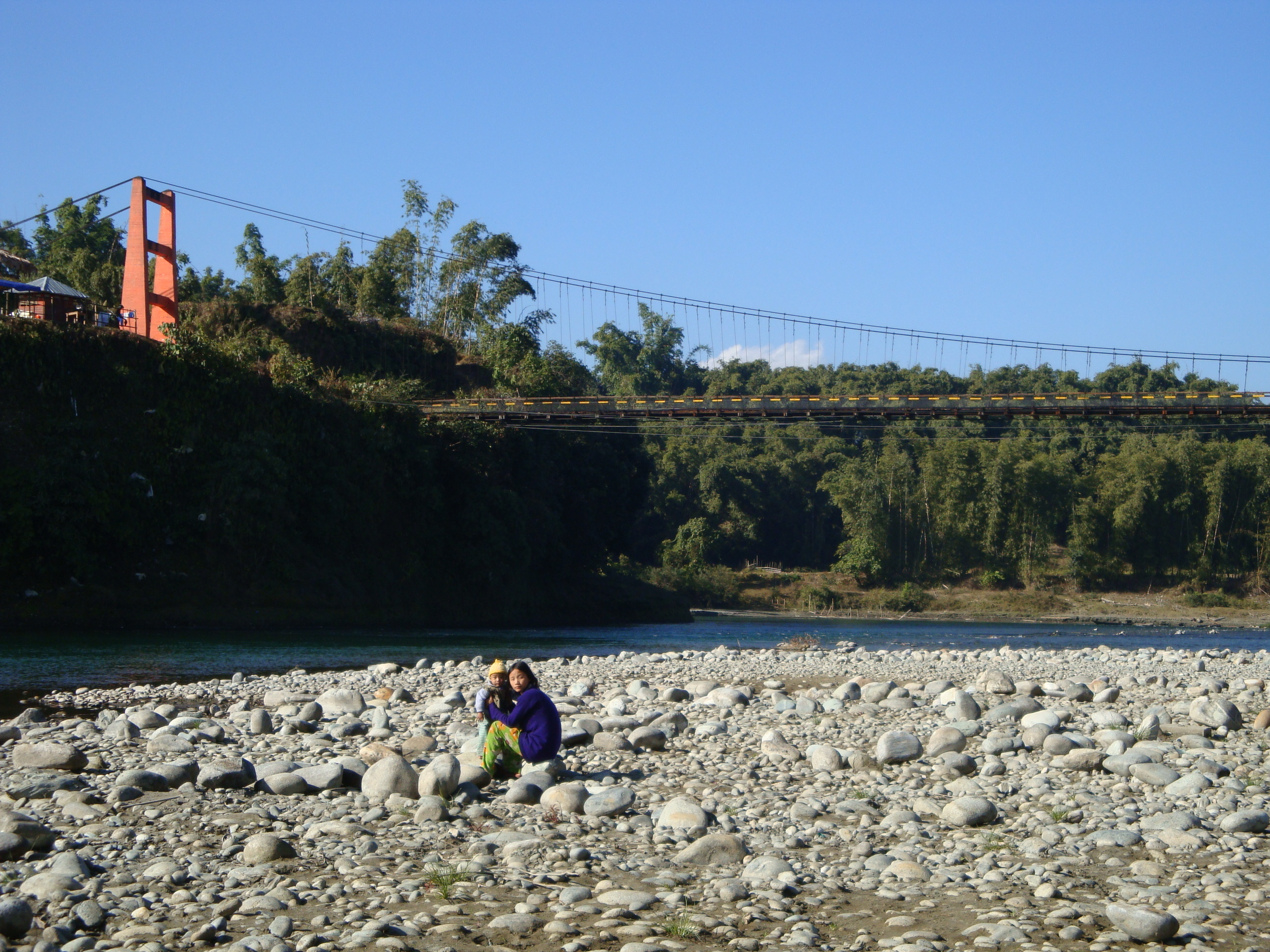 Nam Lang river, Putao.